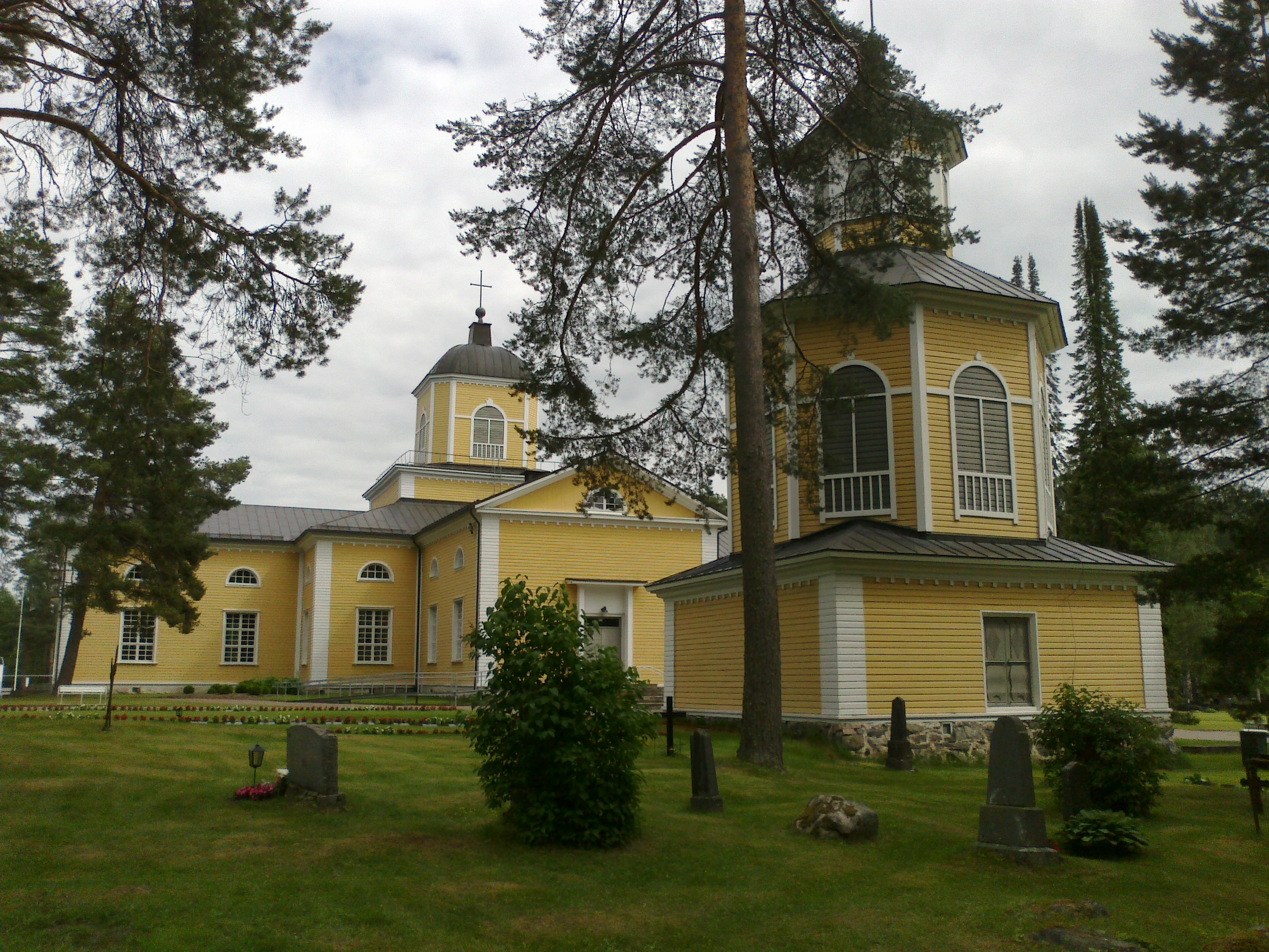 The bell tower of the Maaninka church is older than the church which was built 1826–1845.